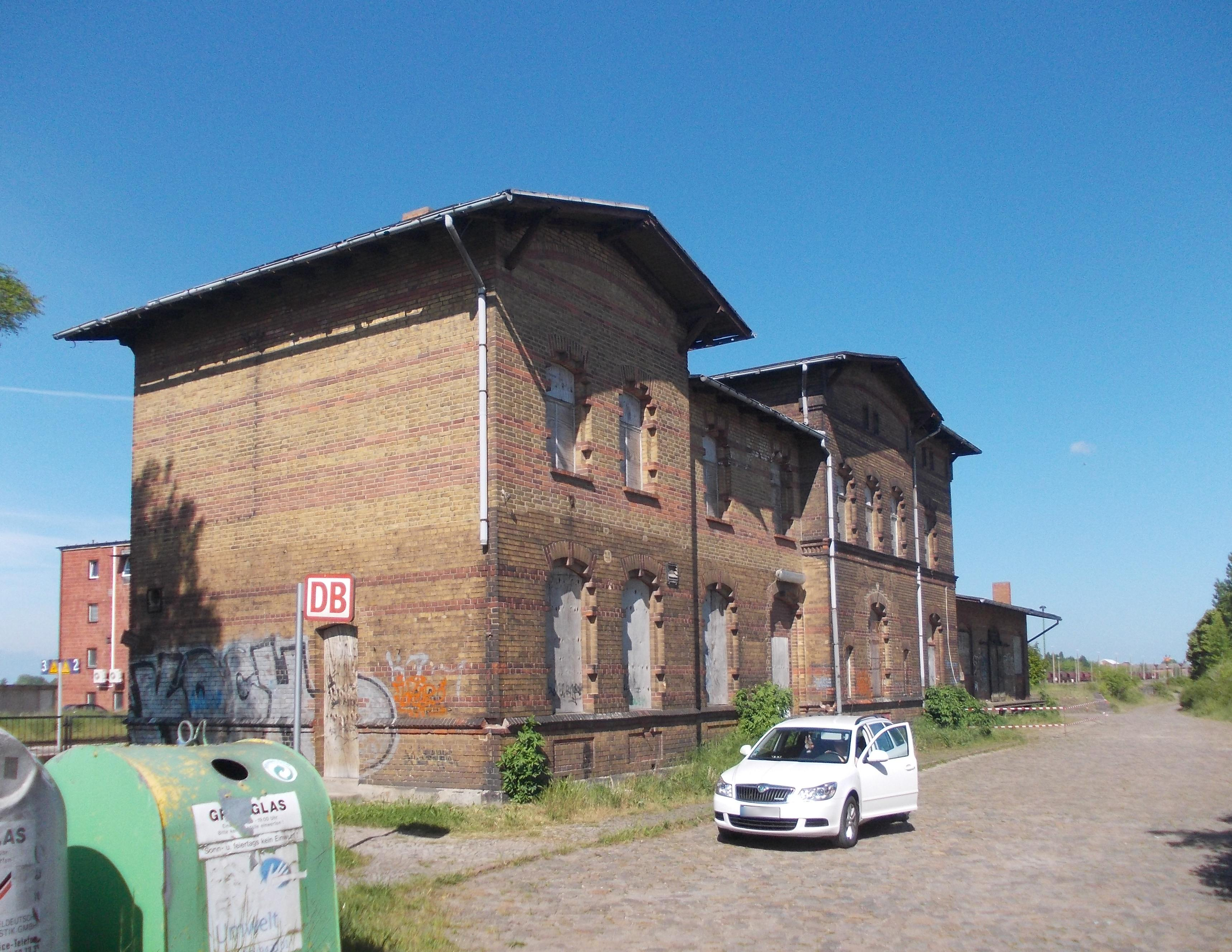 Baalberge train station (Bernburg, district: Salzlandkreis, Saxony-Anhalt)